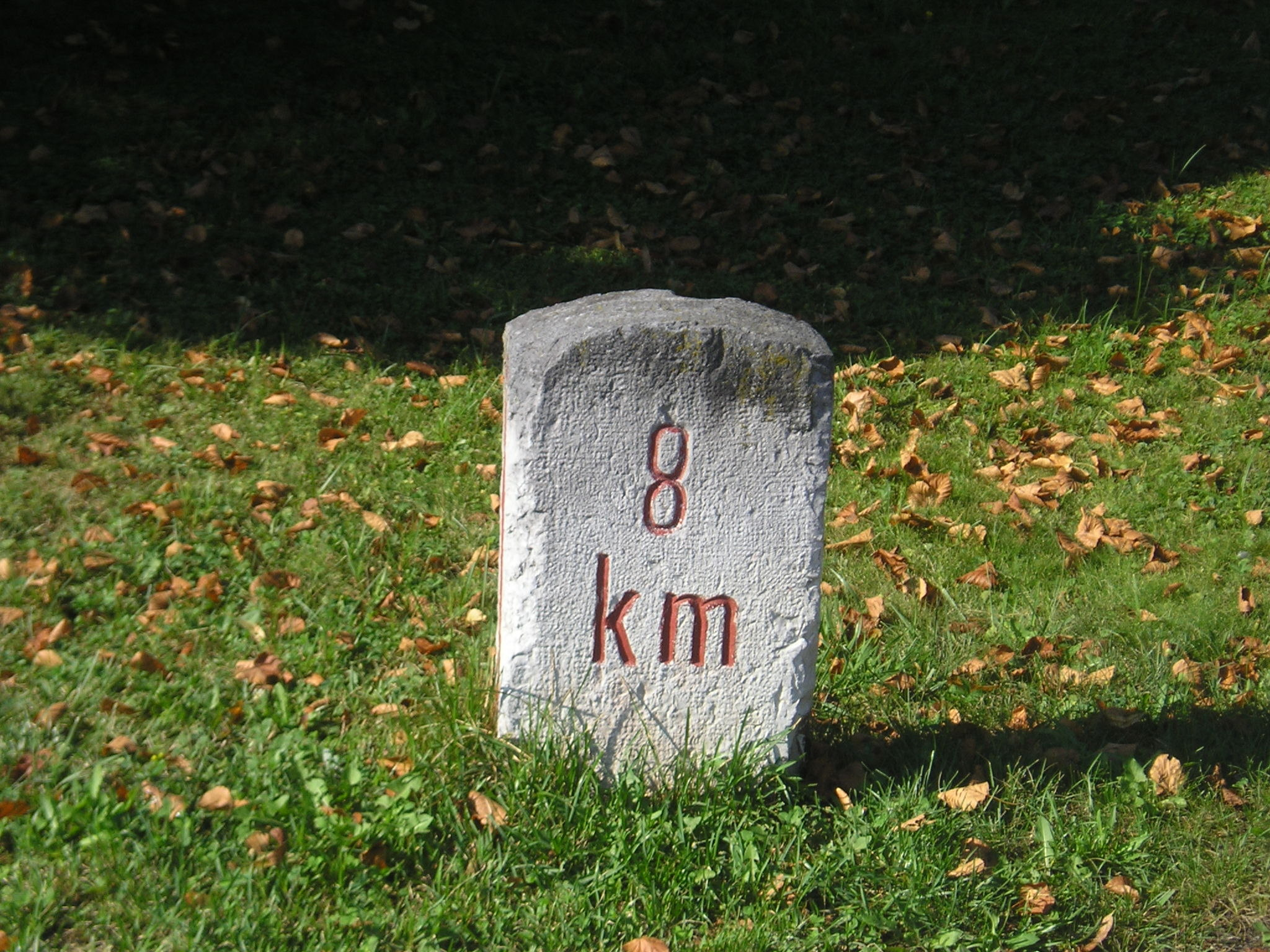 Drenov Grič near Vrhnika, Slovenia - a remaining milestone of the former railway between Brezovica and Vrhnika (1899 - 1966). The milestone is located a few meters before reaching the remaing bridge over the Zrnica stream and indicates the distnace from the Brezovica station